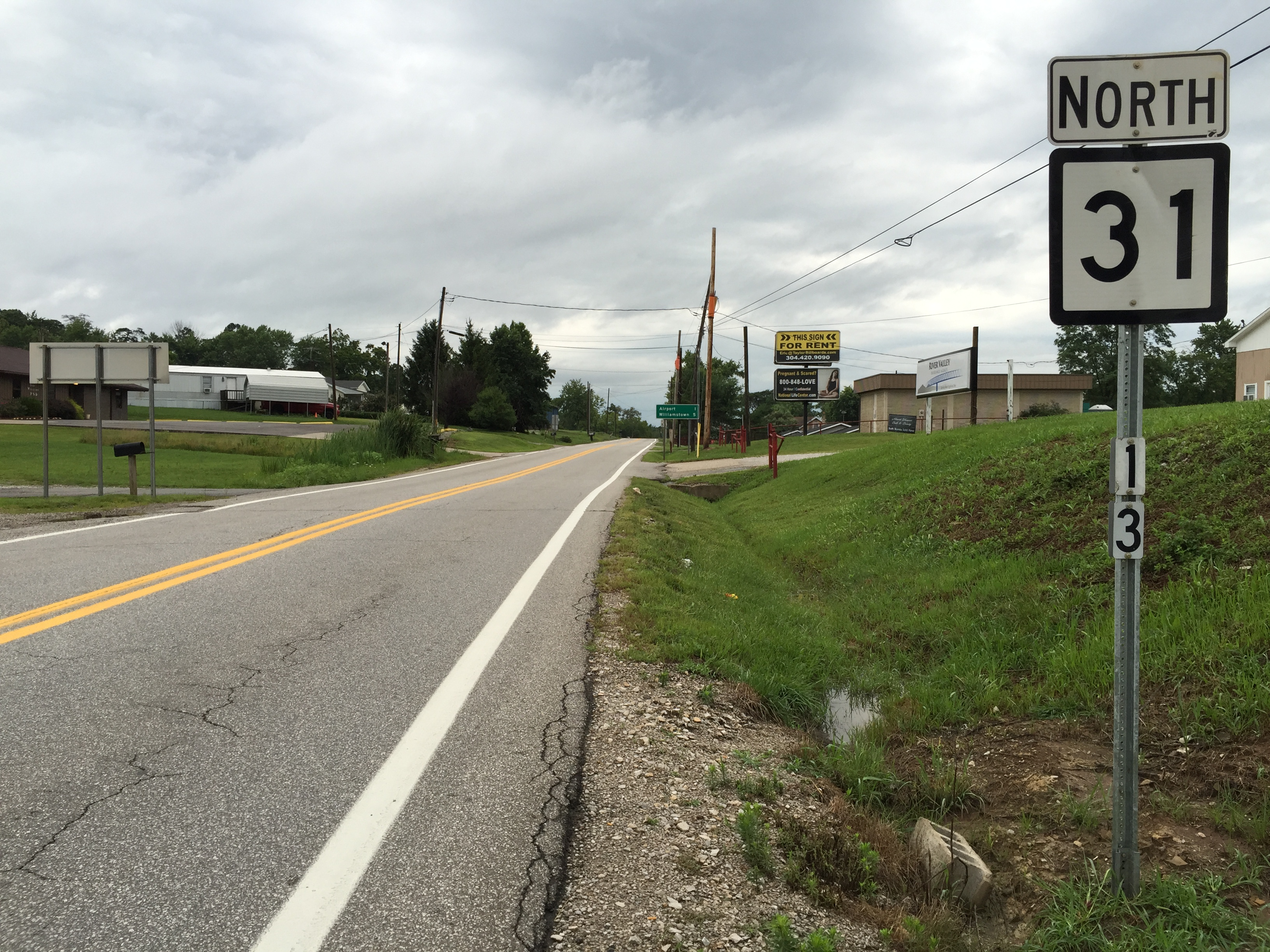 View north along West Virginia State Route 31 (Williamstown Pike) at West Virginia State Route 2 (Emerson Avenue) in Valley Mills, Wood County, West Virginia